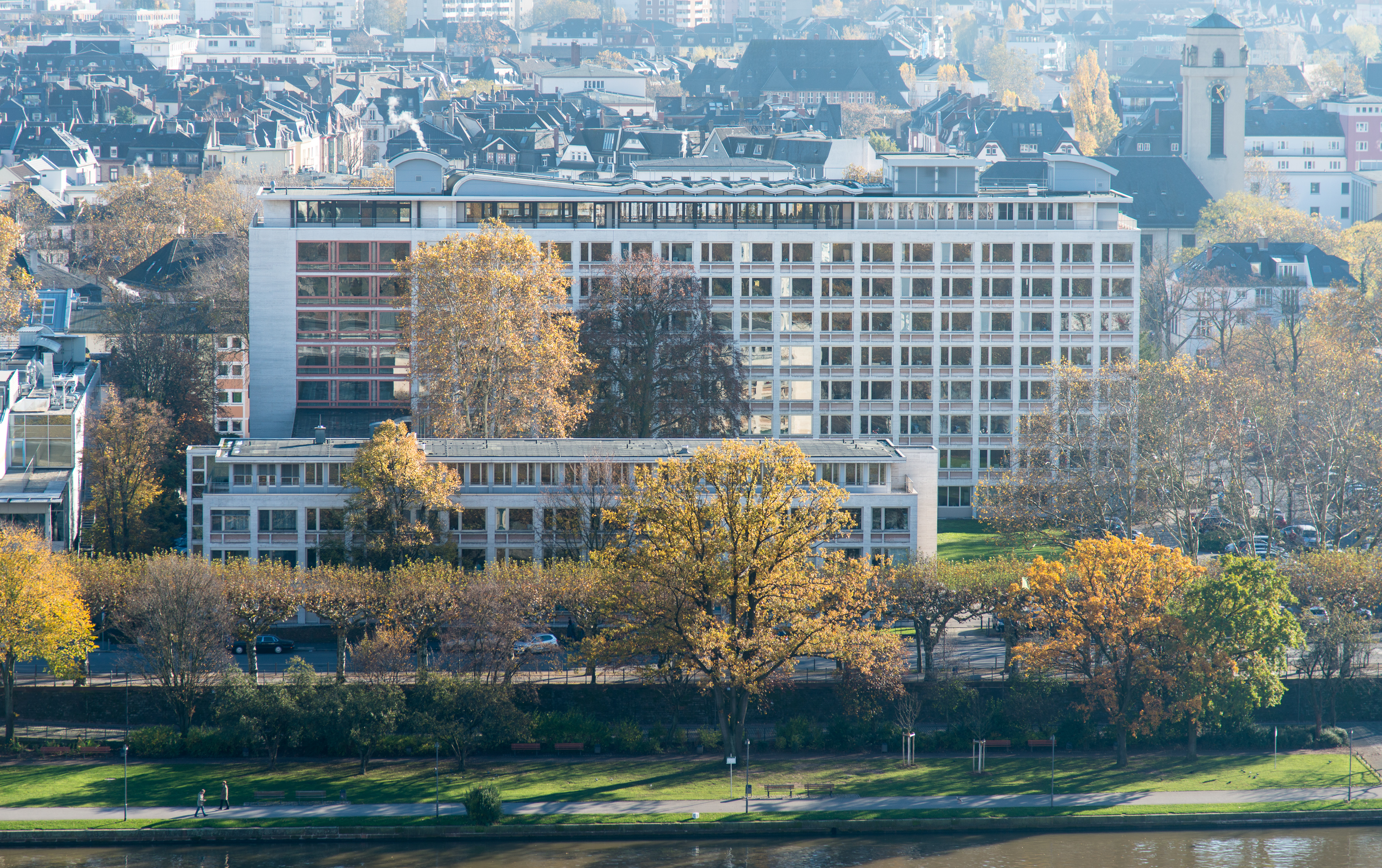 Frankfurt am Main, Schaumainkai / Städelstraße 28, Deutsche Rentenversicherung Hessen as seen from North.